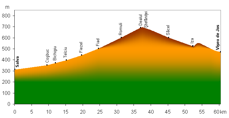 Elevation profile of the railway track Salva-Viseu de Jos